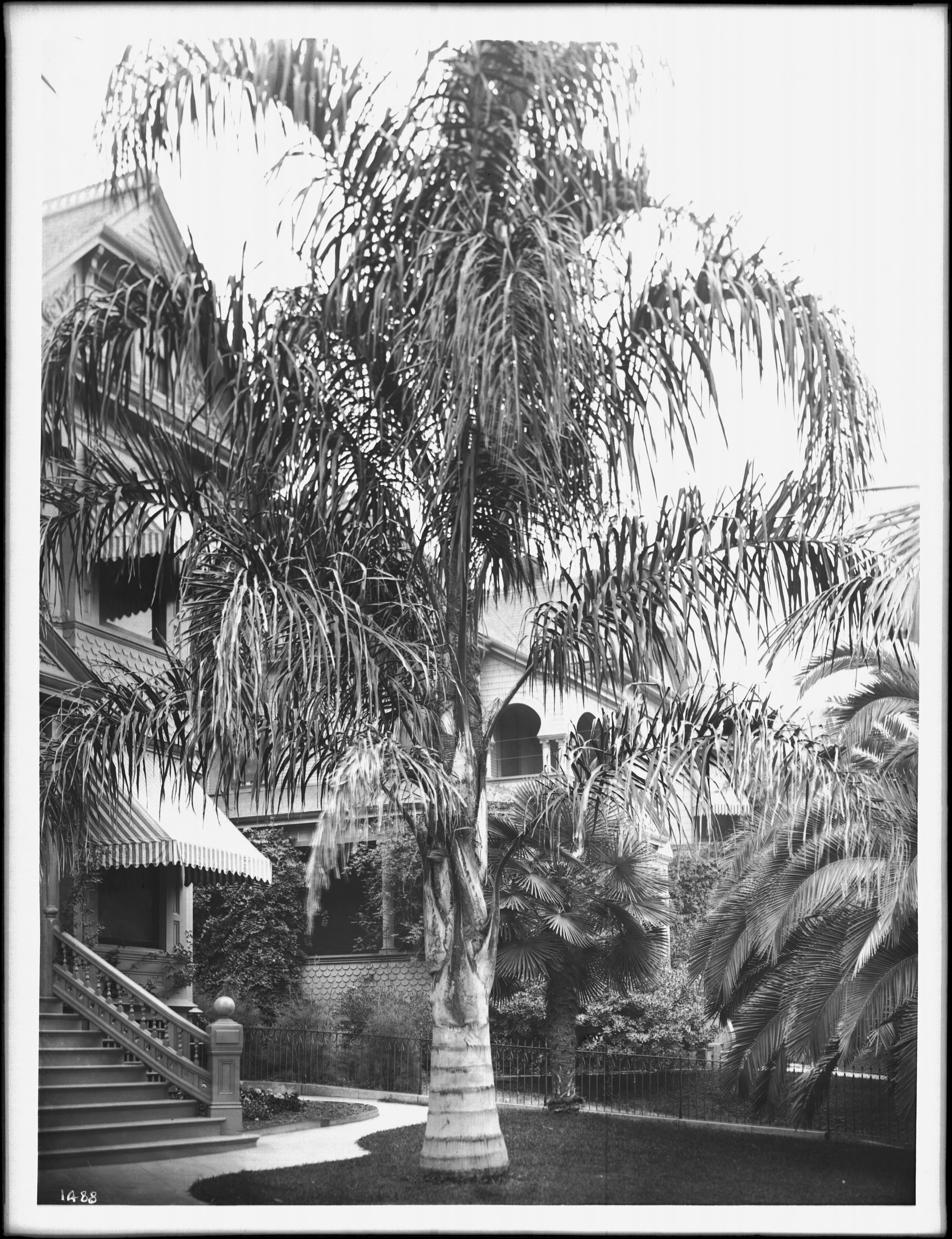 A cocos plumosos palm tree growing in a grassy lawn at the foot of the steps to a residence, Los Angeles, ca.1920. Photograph of a Syagrus romanzoffiana − Queen Palm (syn: Cocos plumosa) tree, growing in a grassy lawn at the foot of the steps to a 2-story Victorian residence in Los Angeles, ca.1920. A decorative stone balustrade leads up the side of the stairs. There is a small paved walkway curving around the side of the house. Behind the palm, the property is demarked with a low wrought iron fence. The Victorian house next door is visible through trees and bushes. Call number: CHS-1488 Filename: CHS-1488 Coverage date: circa 1920 Part of collection: California Historical Society Collection, 1860-1960 Format: glass plate negatives Type: images Geographic subject (city or populated place): Los Angeles Repository name: USC Libraries Special Collections Accession number: 1488 Microfiche number: 1-86-13 Archival file: chs_Volume91/CHS-1488.tiff Part of subcollection: Title Insurance and Trust, and C.C. Pierce Photography Collection, 1860-1960 Repository address: Doheny Memorial Library, Los Angeles, CA 90089-0189 Geographic subject (country): USA Format (aacr2): 2 photographs : glass photonegative, photoprint, b&w ; 22 x 17 cm. Rights: Digitally reproduced by the USC Digital Library; From the California Historical Society Collection at the University of Southern California Subject (adlf): housing areas Project: USC Repository Contributing entity: California Historical Society Date created: circa 1920 Publisher (of the digital version): University of Southern California. Libraries Format (aat): photographic prints; photographs Geographic subject (state): California Subject (file heading): Botany -- Trees -- Palm Legacy record ID: chs-m15048; USC-1-1-1-14203 Access conditions: Send requests to address or e-mail given. Phone (213) 821-2366; fax (213) 740-2343. Geographic subject (county): Los Angeles Subject (lcsh): Trees; Palms; Botany